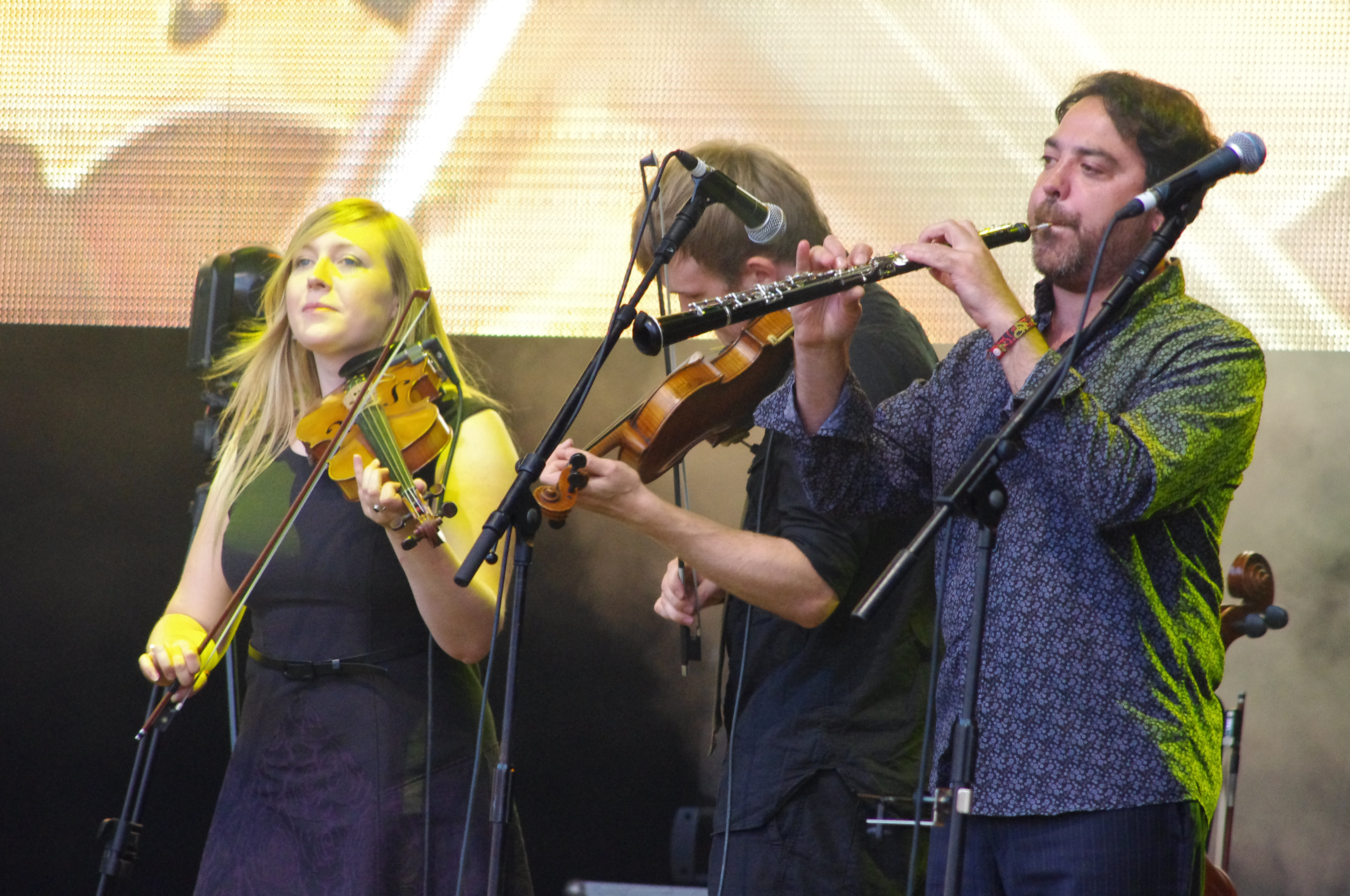 Rachael McShane, Sam Sweeney, Paul Sartin playing in Bellowhead at Cropredy 2012